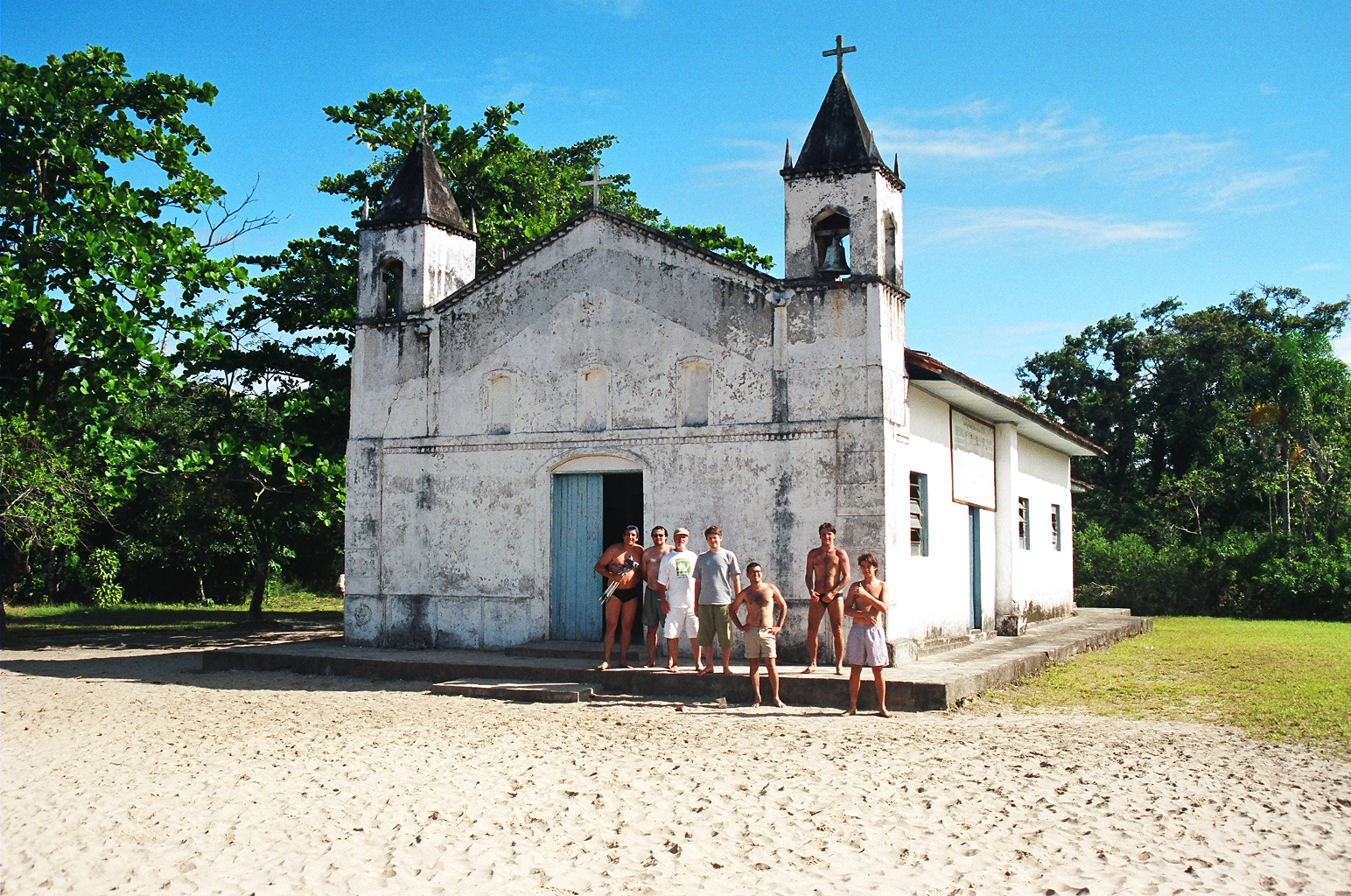 Ararapira's Church, in Cananéia, São Paulo, Brazil.